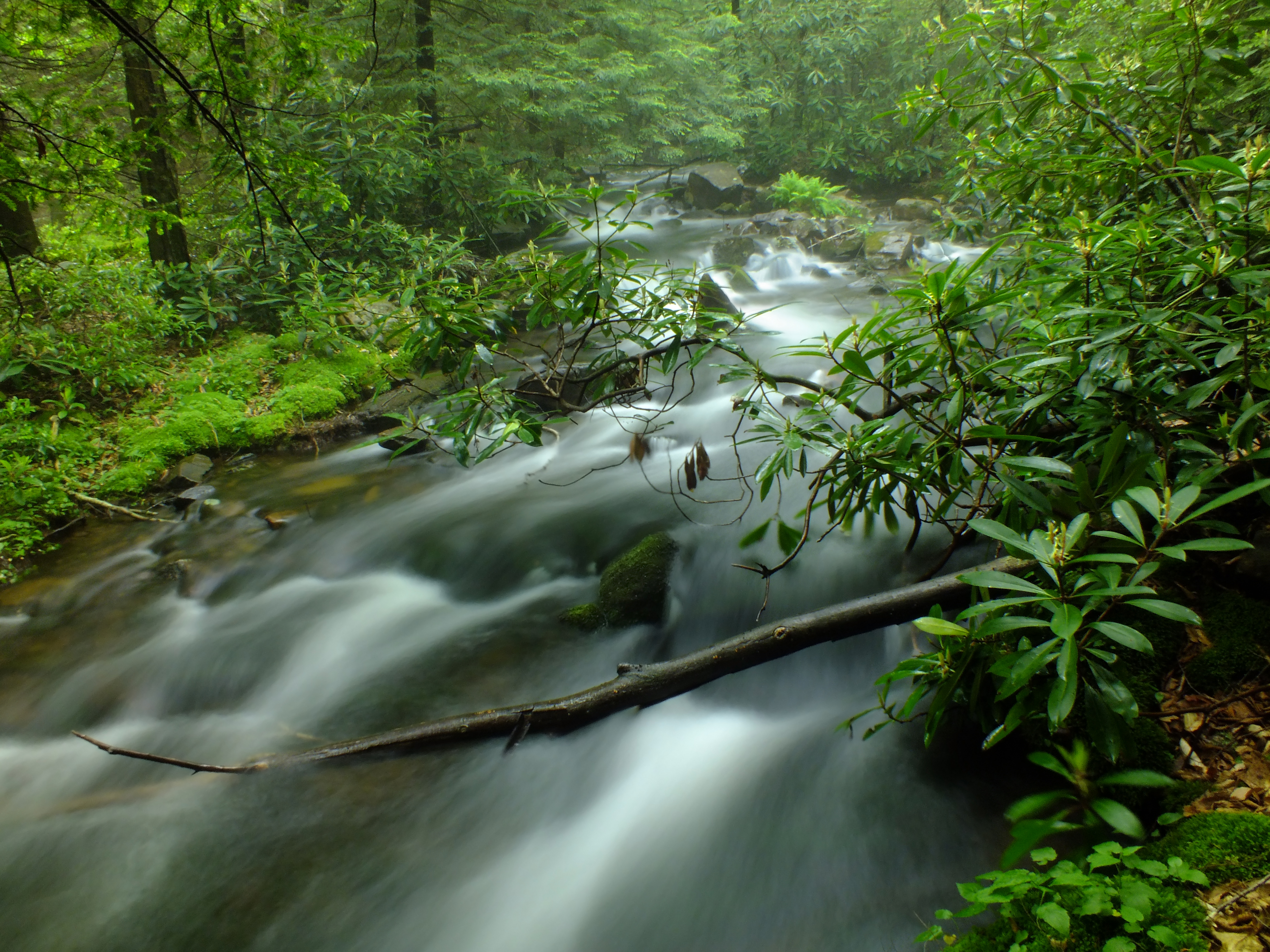 North Branch Buffalo Creek, Union County, within the Hook Natural Area of Bald Eagle State Forest. The natural area protects 5100-plus acres of mountainous, heavily forested land.